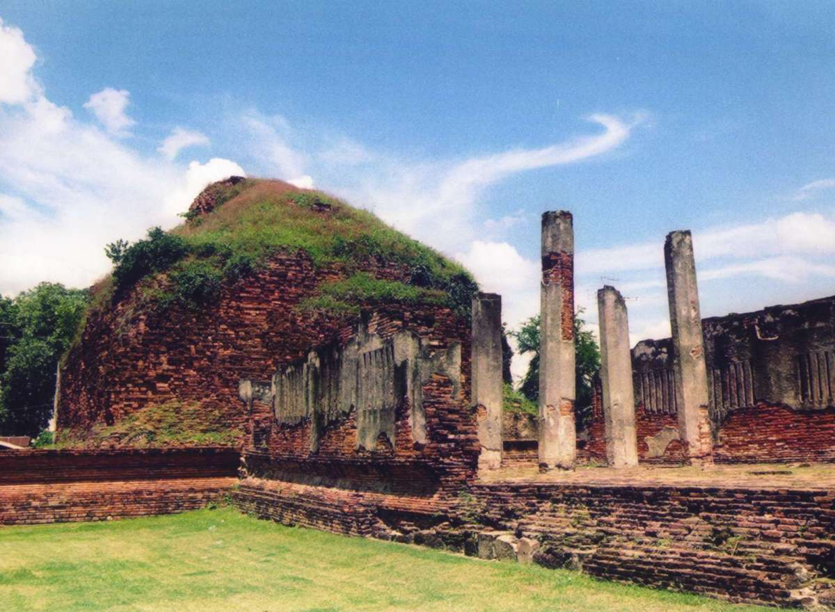 Khmer-style temple in Lopburi, Thailand. The prang was built around 1157, the main buildings were probably renovated during the reign of King Narai in the 17th century. Photo taken by User:Ahoerstemeier on July 14, 2003.